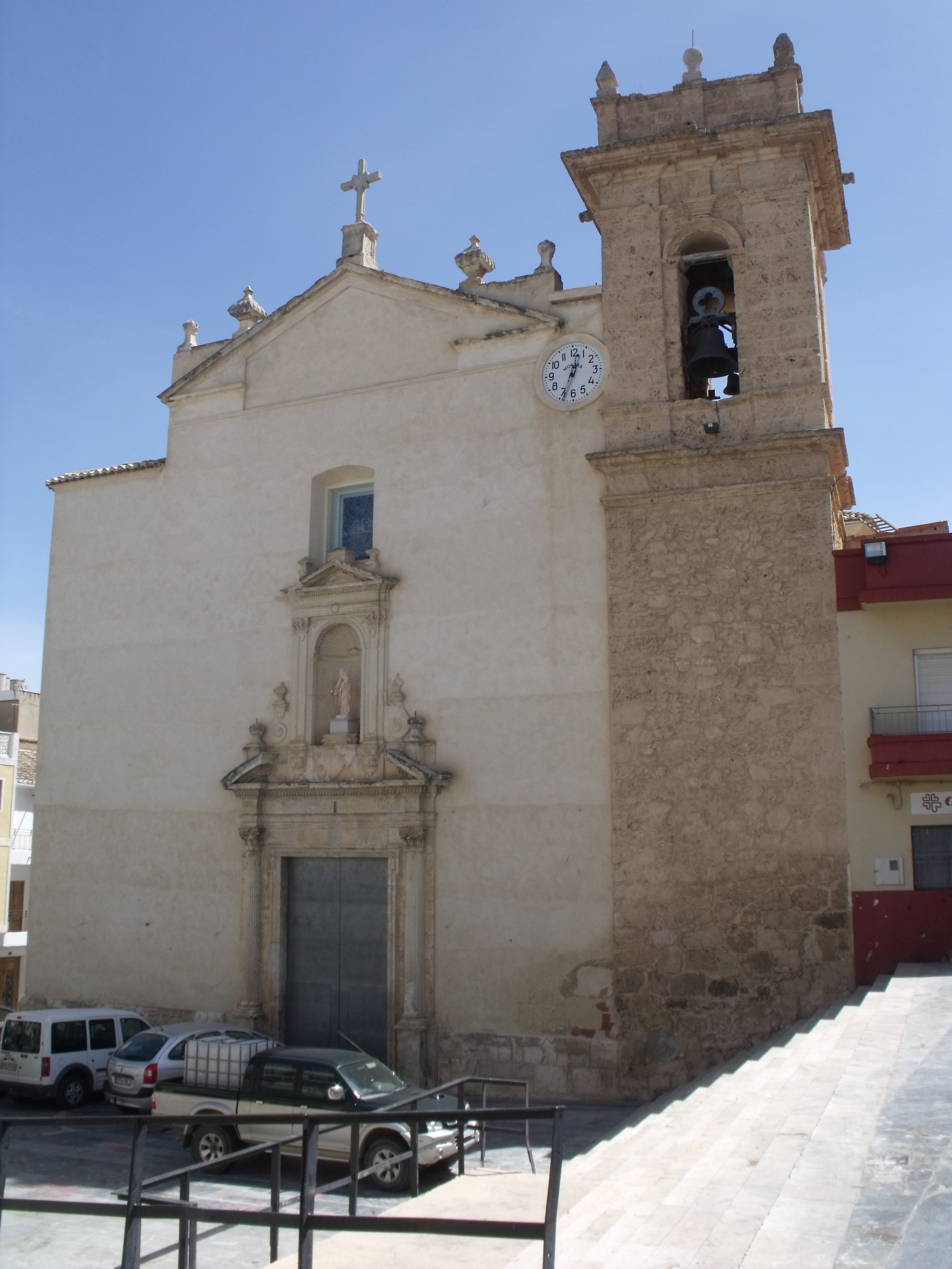 Santos Reyes parrish church. Yátova.